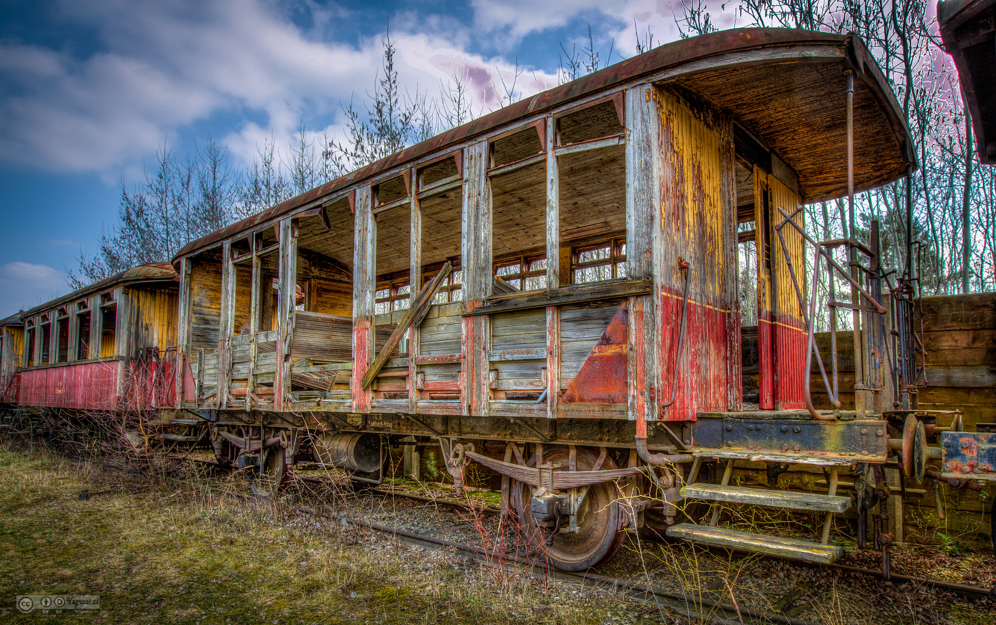 500px provided description: Heavens, this old and decayed railway wagon looks soooo sad waiting for a revitalisation ... [#hdr ,#old ,#train ,#transportation ,#railway ,#abandoned ,#railroad ,#decay]